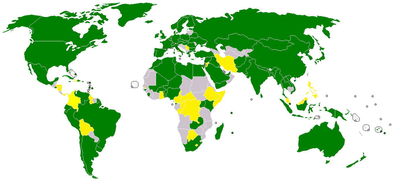 Outer Space Treaty